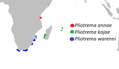 Distribution of the Sixgill sawsharks